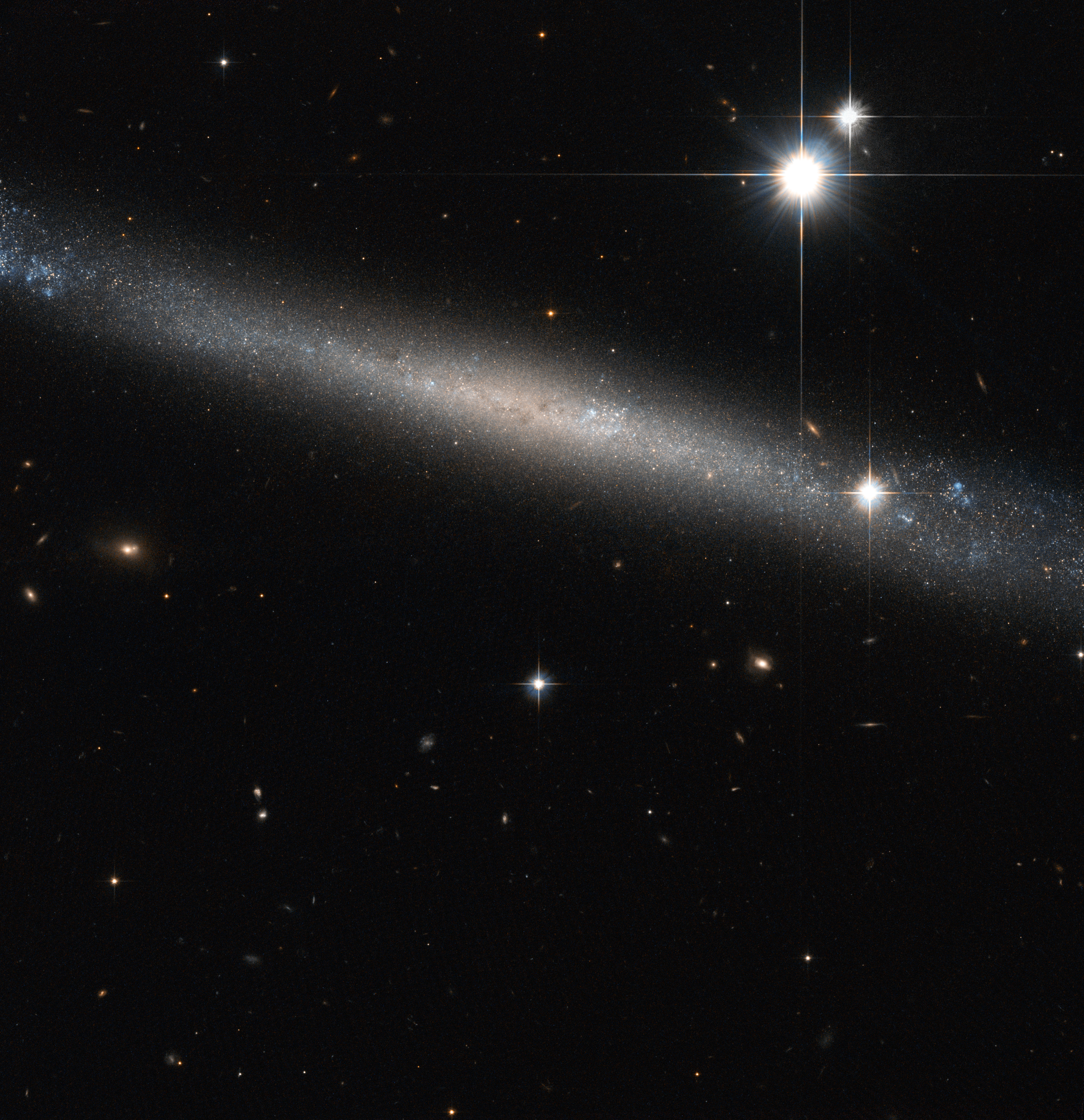 Like finding a silver needle in the haystack of space, the NASA/ESA Hubble Space Telescope has produced this beautiful image of the spiral galaxy IC 2233, one of the flattest galaxies known. Typical spiral galaxies like the Milky Way are usually made up of three principal visible components: the disc where the spiral arms and most of the gas and dust is concentrated; the halo, a rough and sparse sphere around the disc that contains little gas, dust or star formation; and the central bulge at the heart of the disc, which is formed by a large concentration of ancient stars surrounding the Galactic Centre. However, IC 2233 is far from being typical. This object is a prime example of a super-thin galaxy, where the galaxy’s diameter is at least ten times larger than the thickness. These galaxies consist of a simple disc of stars when seen edge on. This orientation makes them fascinating to study, giving another perspective on spiral galaxies. An important characteristic of this type of objects is that they have a low brightness and almost all of them have no bulge at all. The bluish colour that can be seen along the disc gives evidence of the spiral nature of the galaxy, indicating the presence of hot, luminous, young stars, born out of clouds of interstellar gas. In addition, unlike typical spirals, IC 2233 shows no well-defined dust lane. Only a few small patchy regions can be identified in the inner regions both above and below the galaxy’s mid-plane. Lying in the constellation of Lynx, IC 2233 is located about 40 million light-years away from Earth. This galaxy was discovered by British astronomer Isaac Roberts in 1894. This image was taken with the Hubble’s Advanced Camera for Surveys, combining visible and infrared exposures. The field of view in this image is approximately 3.4 by 3.4 arcminutes. A version of this image was entered into the Hubble's Hidden Treasures image processing competition by contestant Luca Limatola.